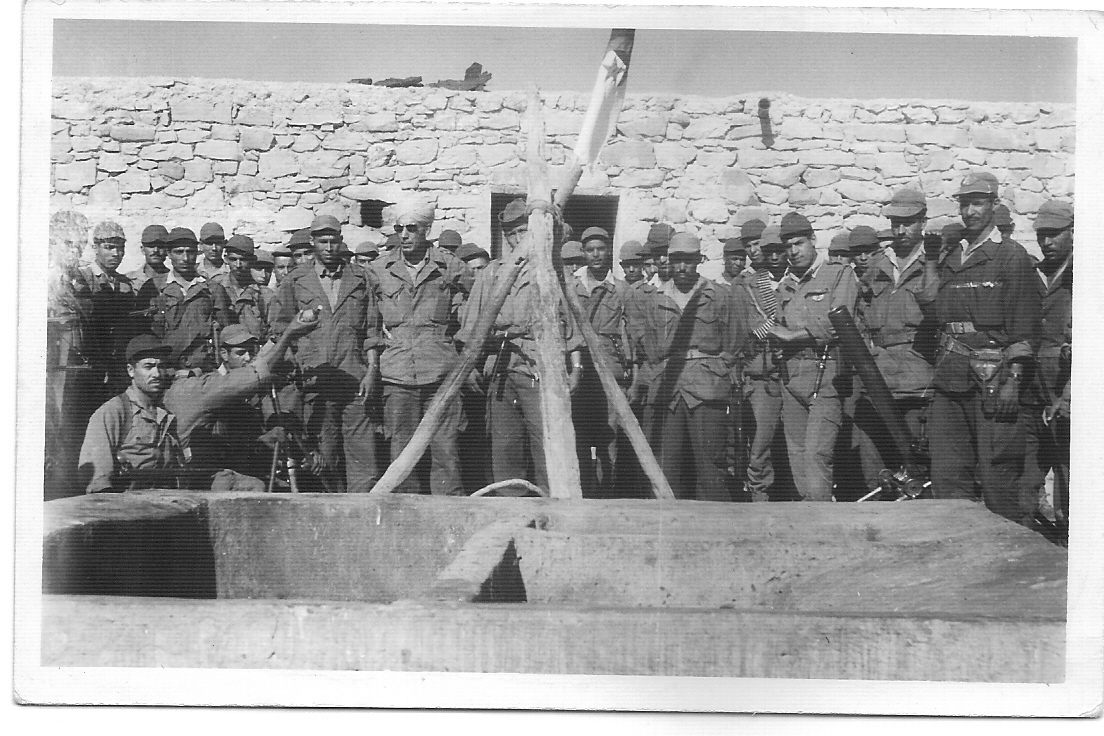 Moudjahiddines algériens à la montagne